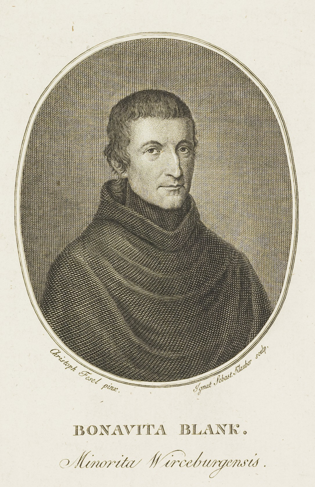 Bonavita Blank (1740-1827), German naturalist